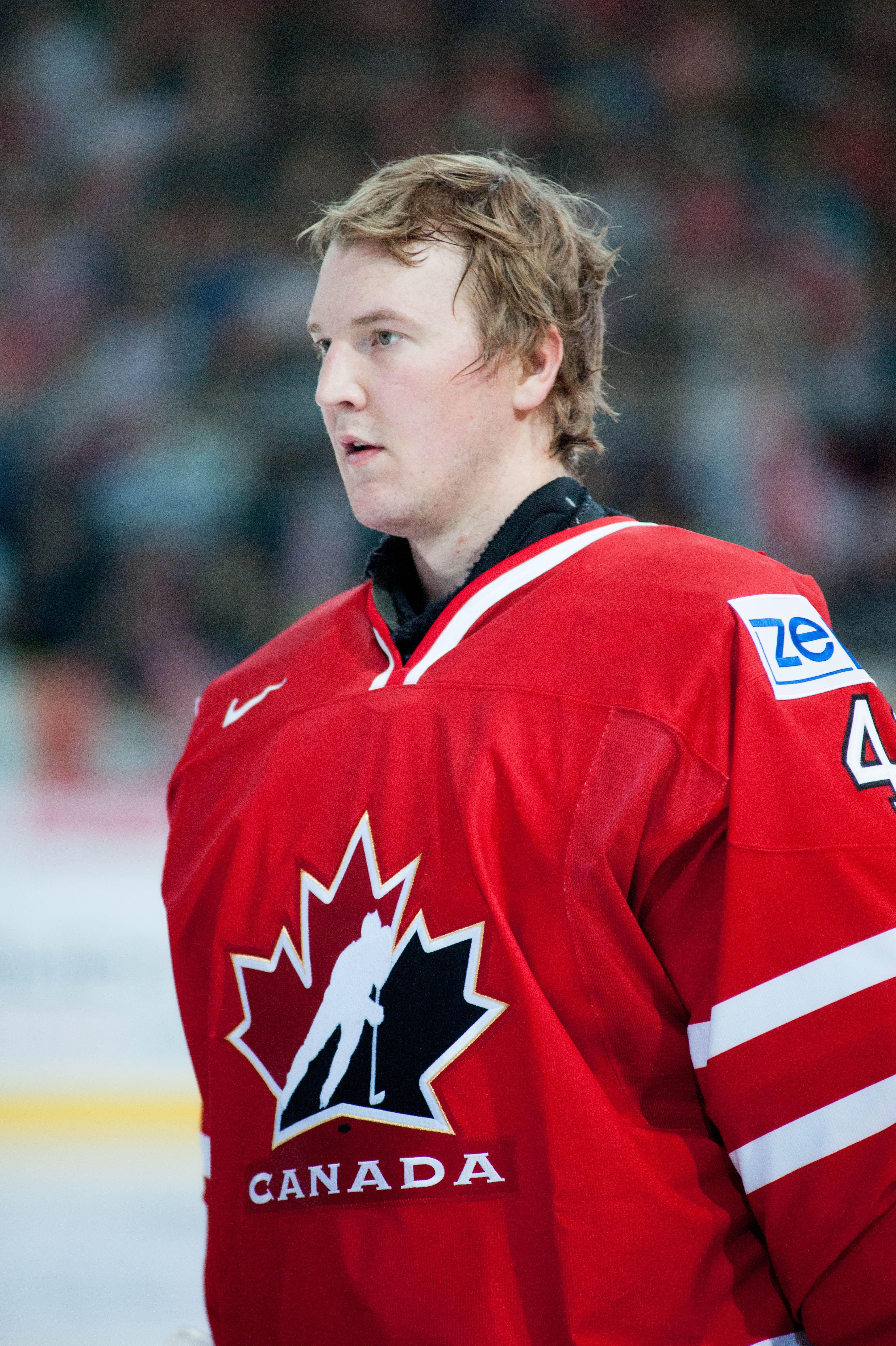 Switzerland vs. Canada, 29th April 2012